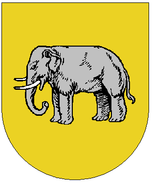 First Coat of Arms of the city of Benguela (XVII century), capital of Benguela province, Angola, according to the publications Brasões das Villas e Cidades de Portugal, no date, end of the XVIII century, and Almeida Langhans, in "Armorial do Ultramar Português" 2 vols. 1966.